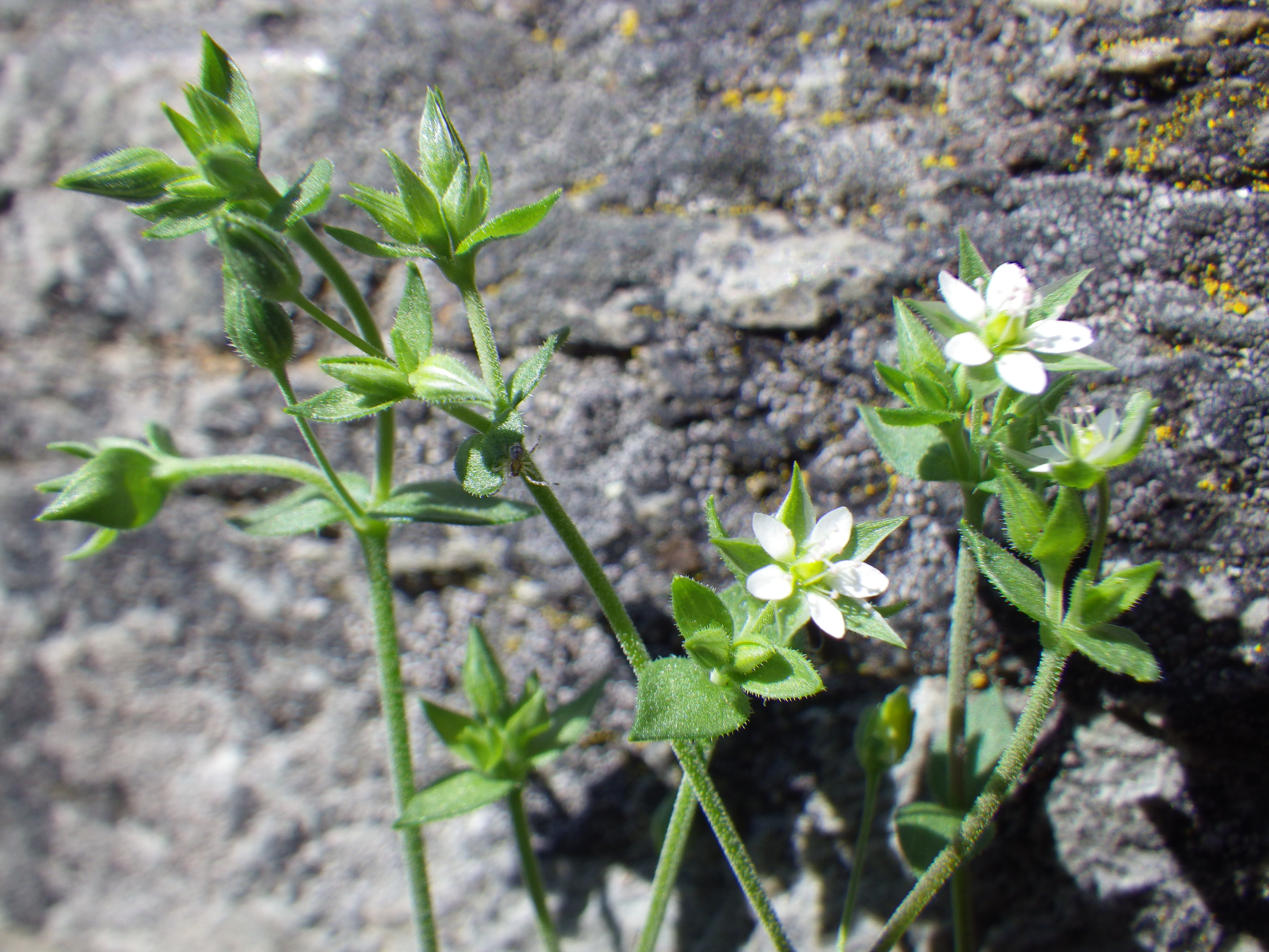 A species of frequently disturbed moist settings and unlike the native Arenarias in having short broad leaves.